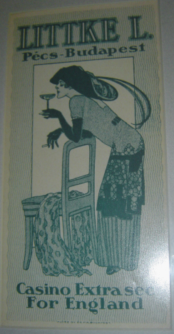 Littke poster for England